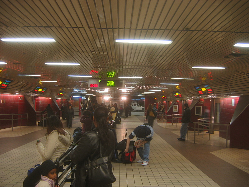 Port Authority Bus Terminal interior, March 2005. © 2005 Joseph Barillari